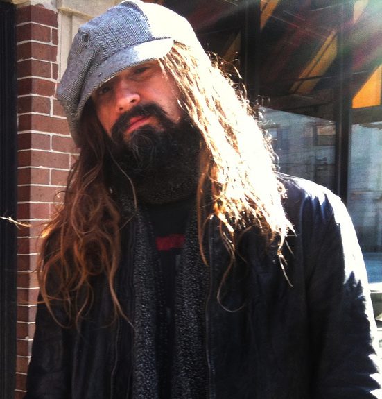 Rob Zombie in 2009, taken from a photo with Eric Thirteen.